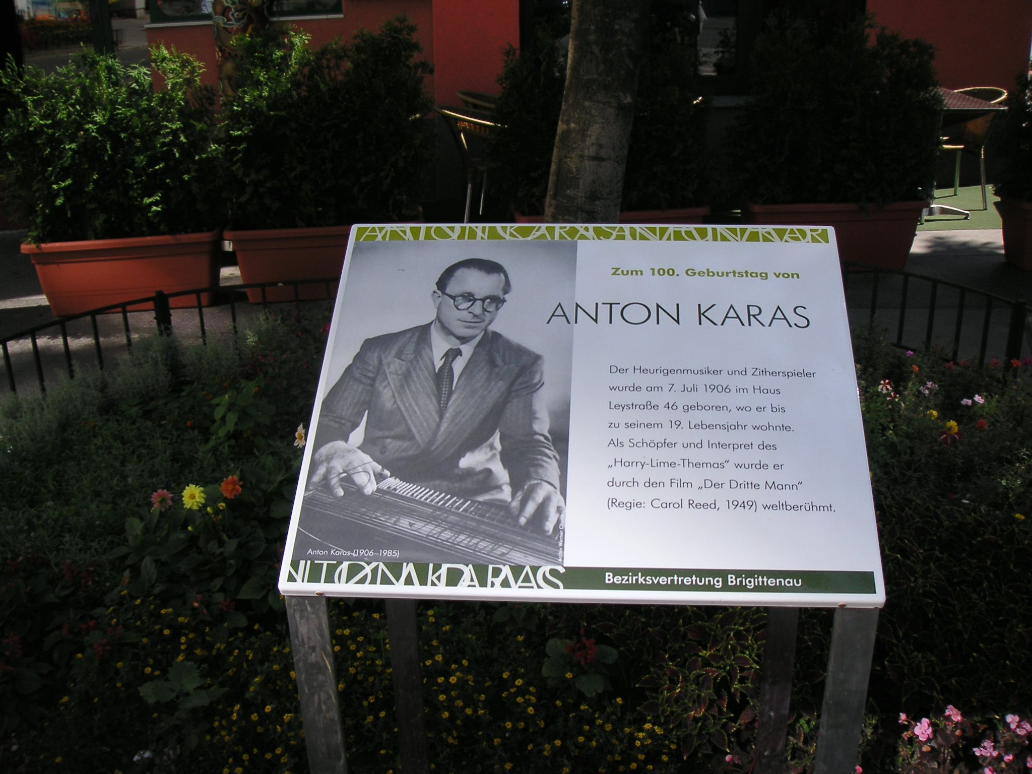 Anton Karas commemorative plaque, in Wien 20., Leystraße 46, in front of the house where Karas had spent the first 19 years of his life. The plaque was unveiled on July 4, 2006, due to Karas' 100th birthday.